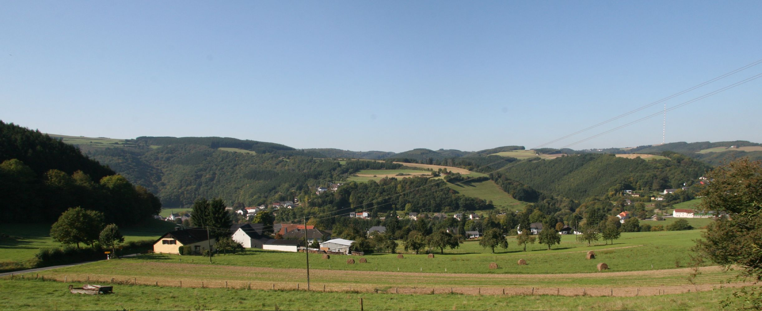 Panorama on Eisenbach (Untereisenbach, Obereisenbach and Übereisenbach), Luxembourg and Germany.